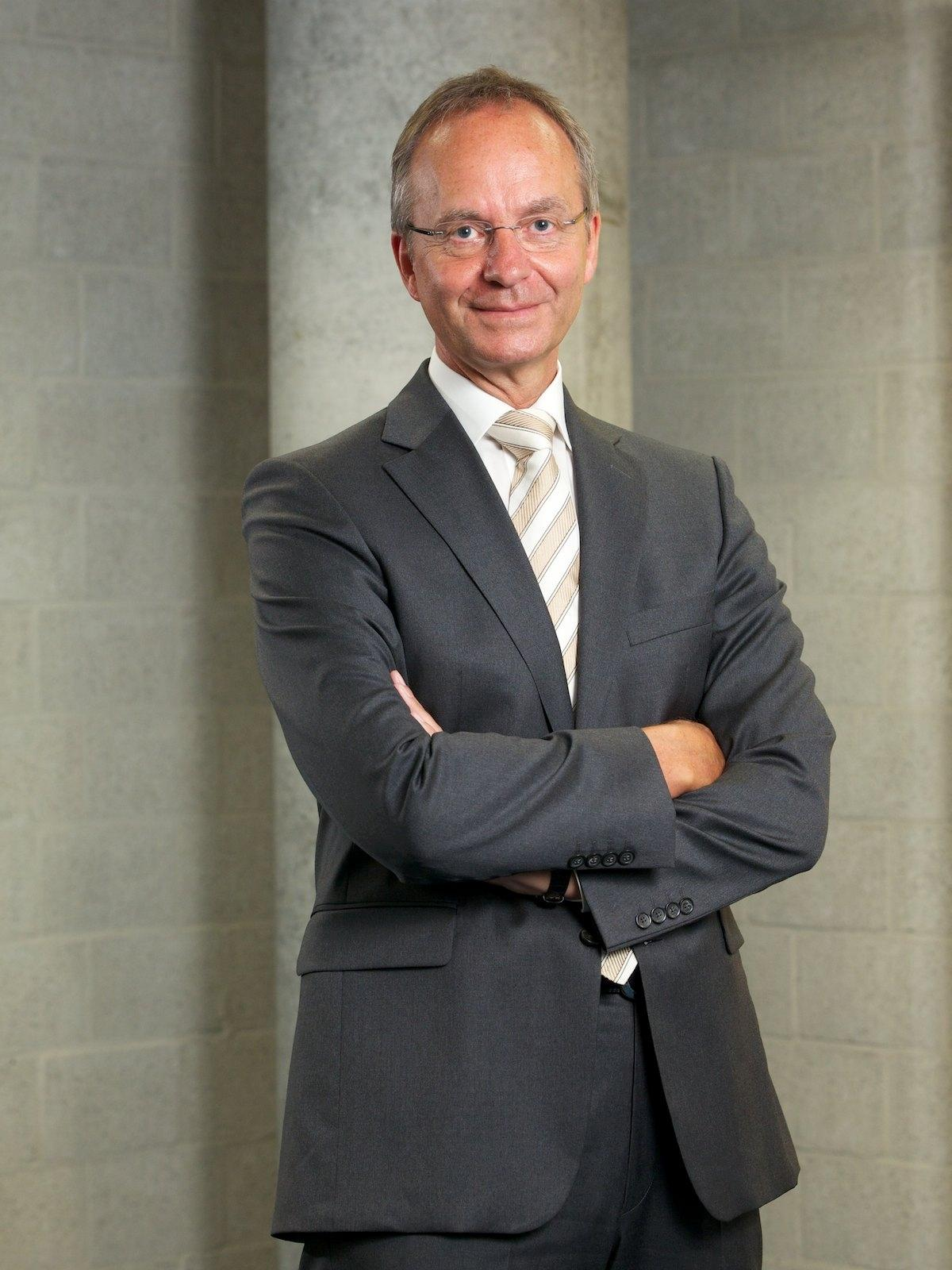 Minister of Social Affairs and Employment of the Netherlands, Henk Kamp (VVD)